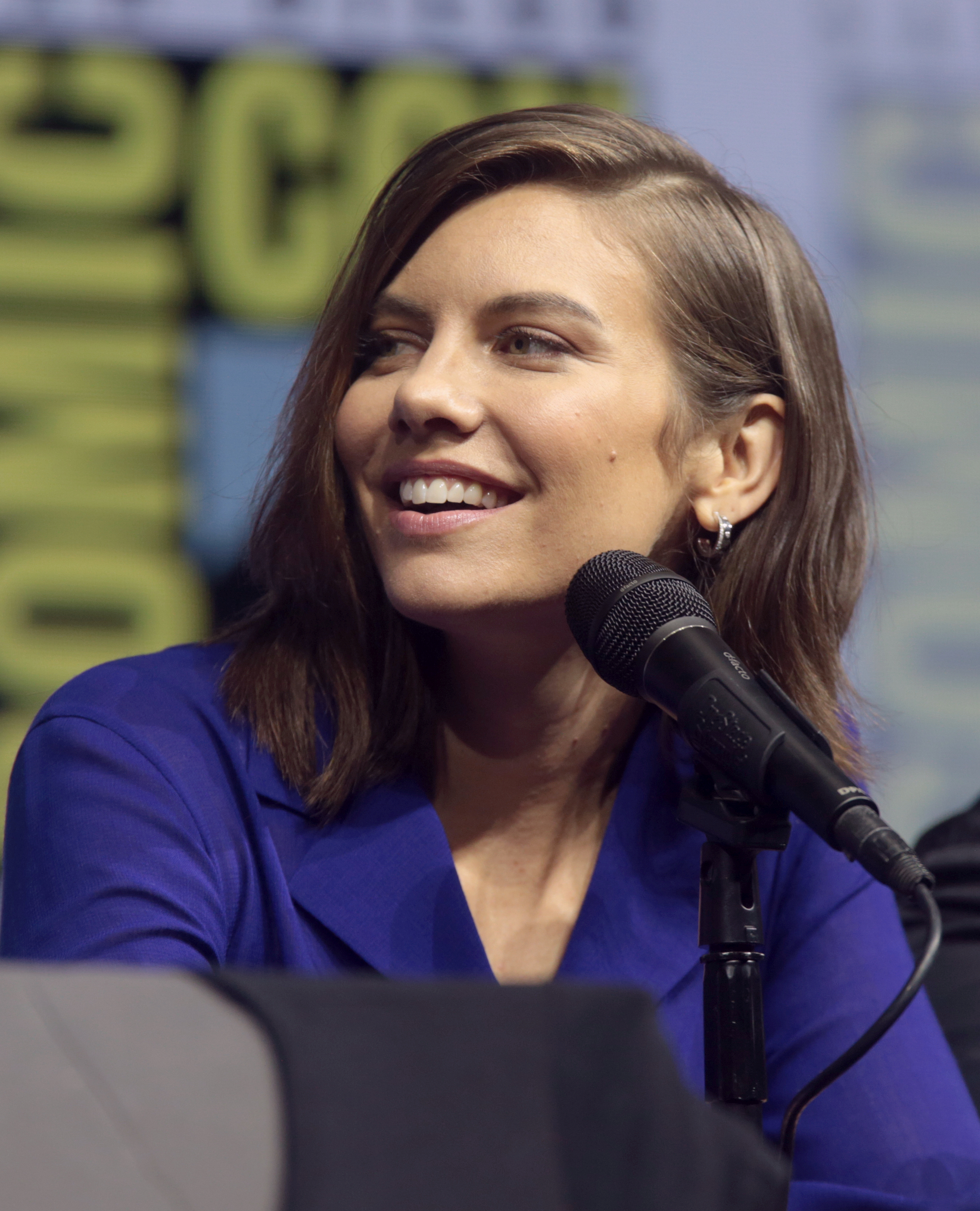 Lauren Cohan and Jeffrey Dean Morgan at San Diego Comic Con in 2018.